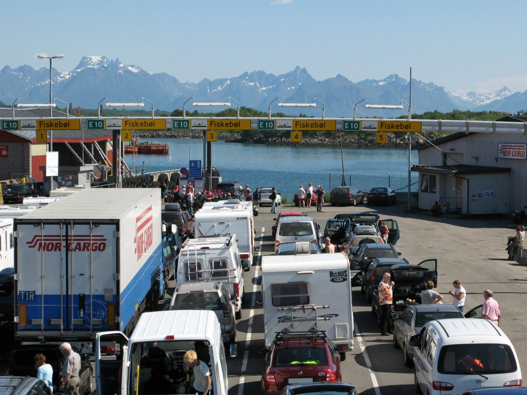 Melbu ferryharbour in Nordland, Norway. Ferry connect to Fiskebøl is connected E10-road, and part of county road 82.